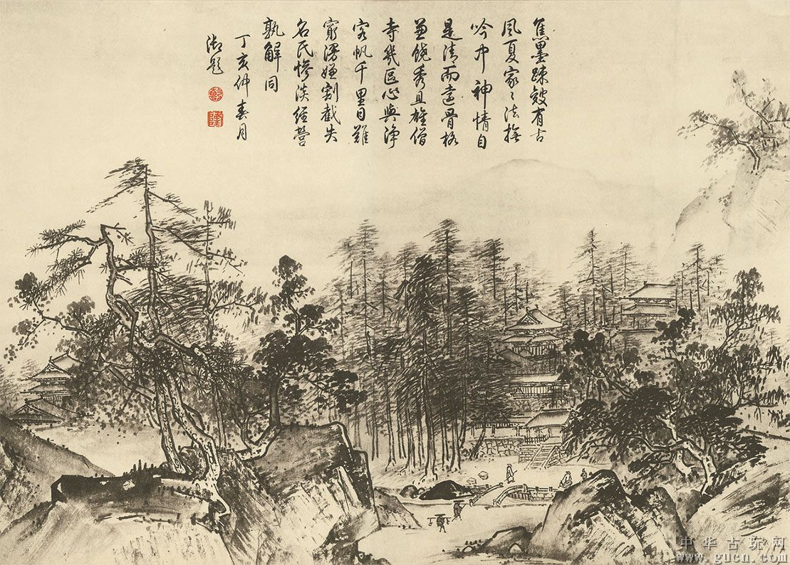 traditional Chinese painting